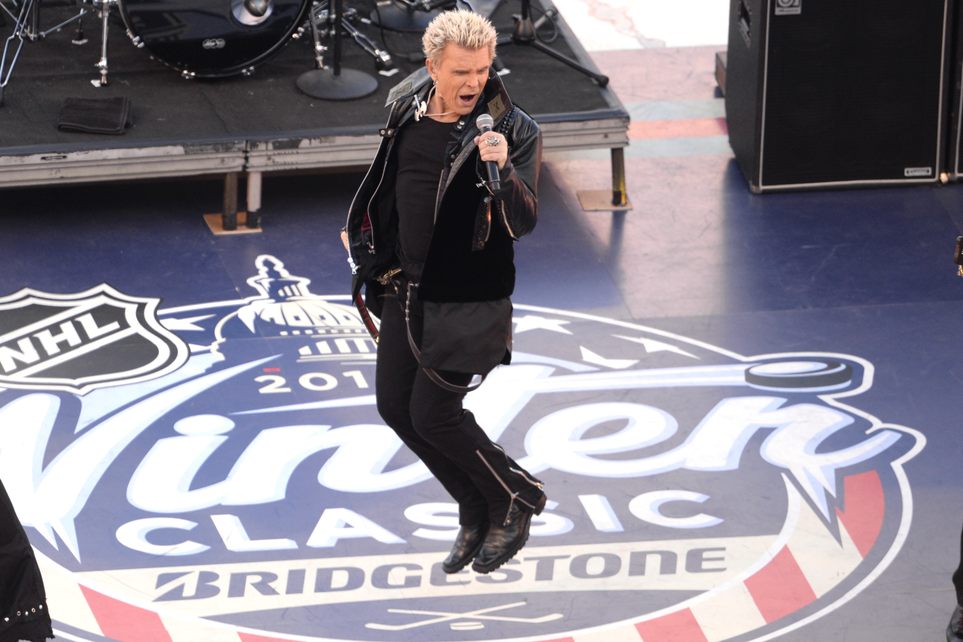 Recording artist Billy Idol performs the opening act of the 2015 Winter Classic at Nationals Park in Washington D.C. Jan. 1, 2015. The hockey game played in the outdoor Nationals baseball stadium featured the Washington Capitals and the Chicago Blackhawks. (DoD News photo by EJ Hersom)